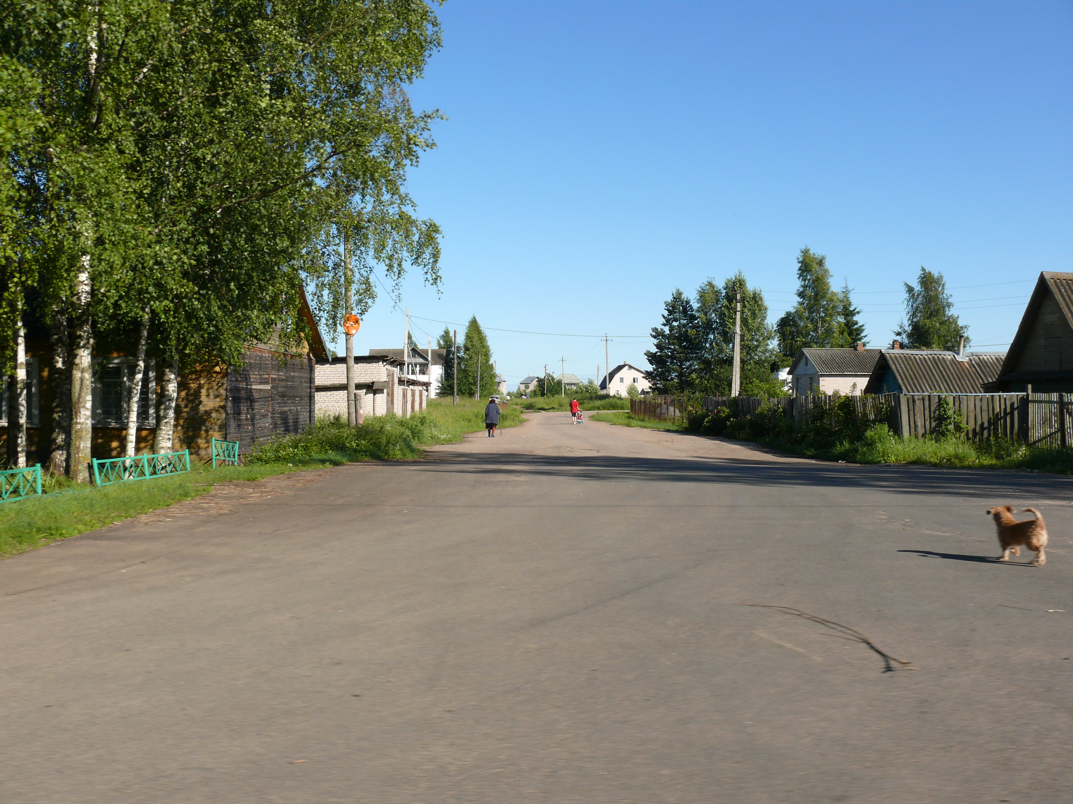 Ilmen village. Novgorodsky district, Novgorod oblast, Russia